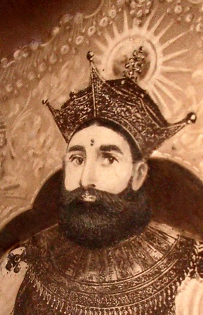 Sri Vikrama Rajasinha. This cropped and enhanced version should be sourced to "Vivek Rajan".